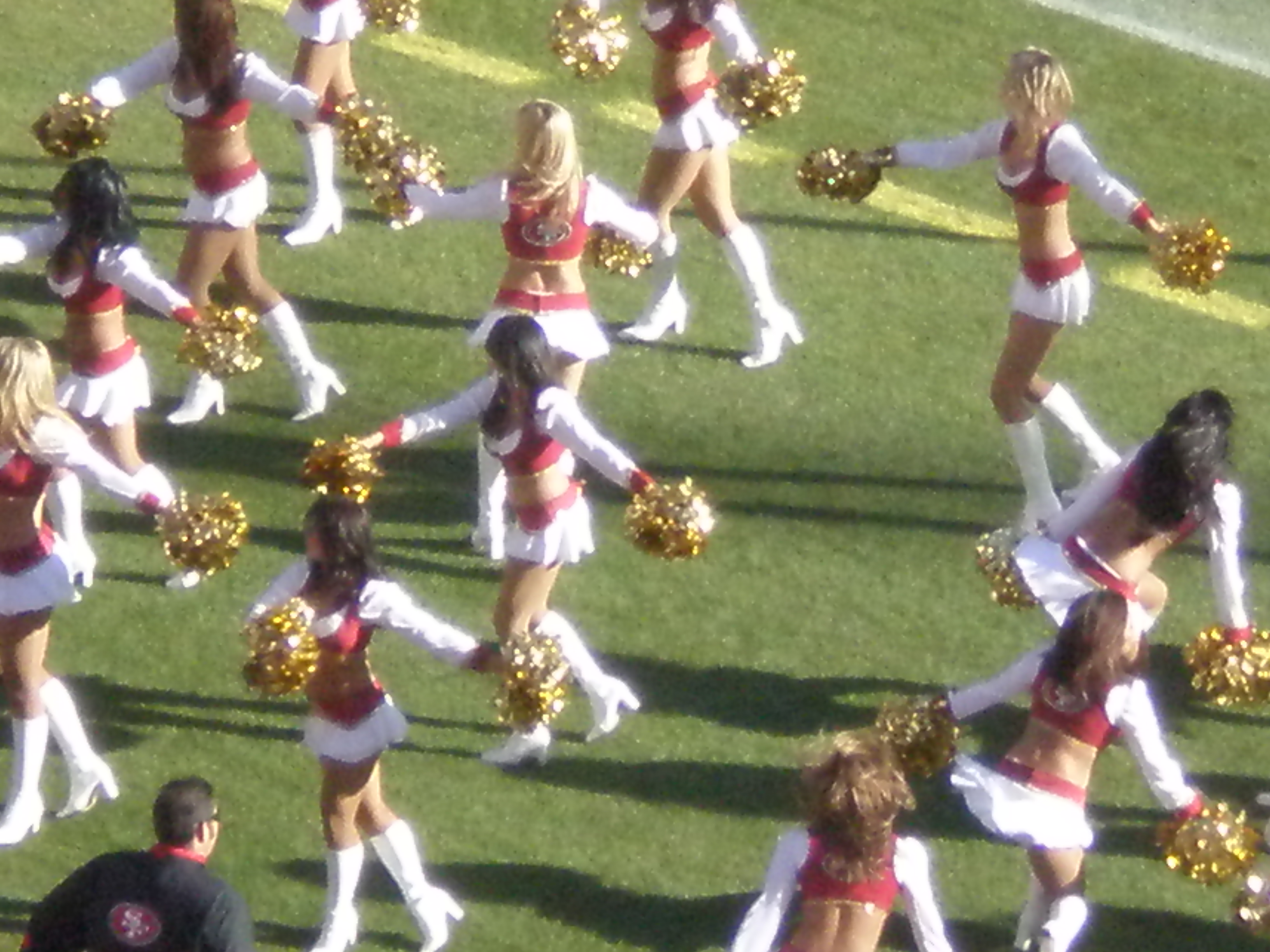 The San Francisco Gold Rush performing on the north side of Candlestick Park during a regular season game against the Philadelphia Eagles. The Eagles won 40-26.